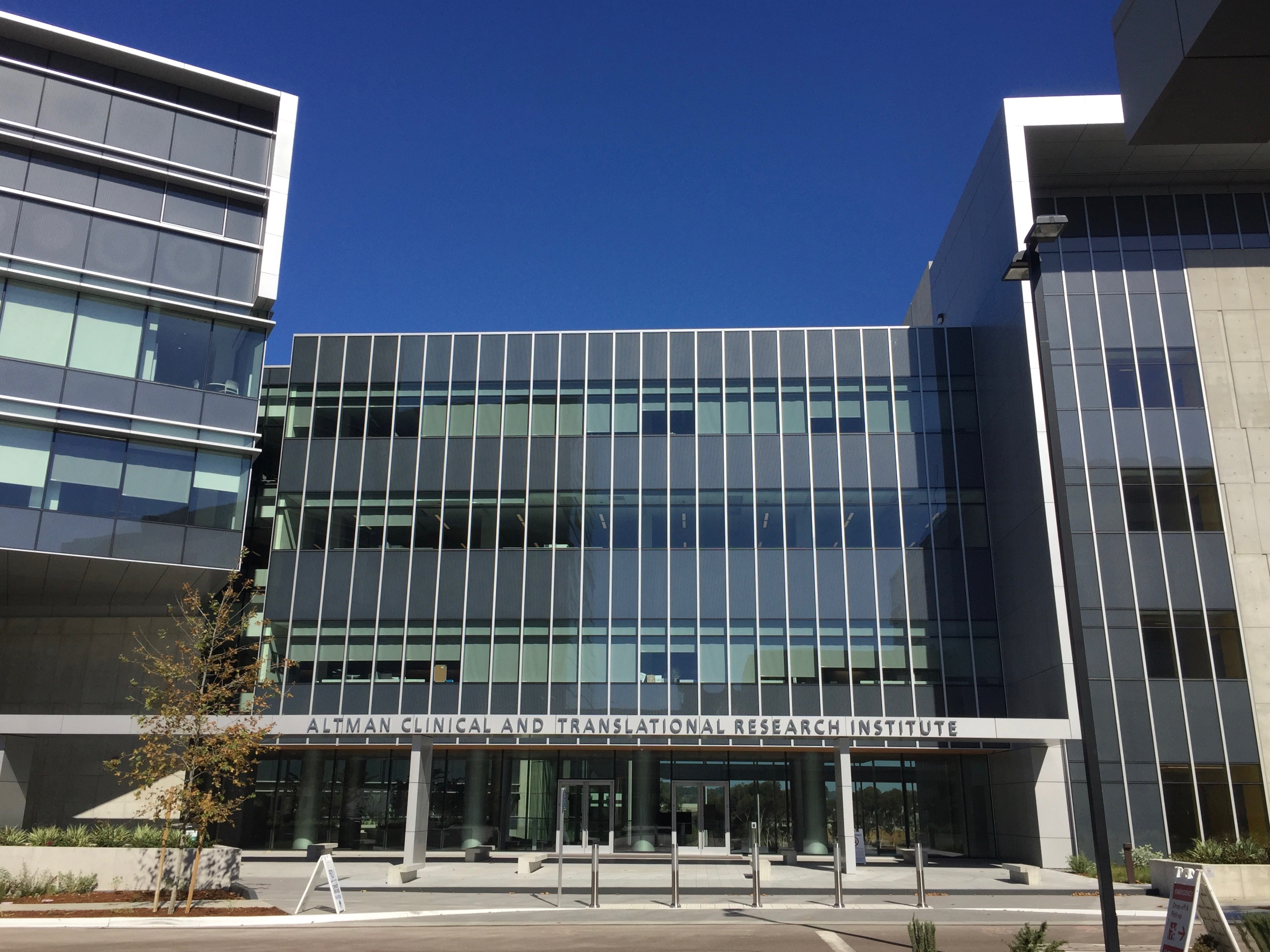 The front facade of the Altman Clinical and Translational Research Institute (ACTRI) at the University of California, San Diego in La Jolla, California.